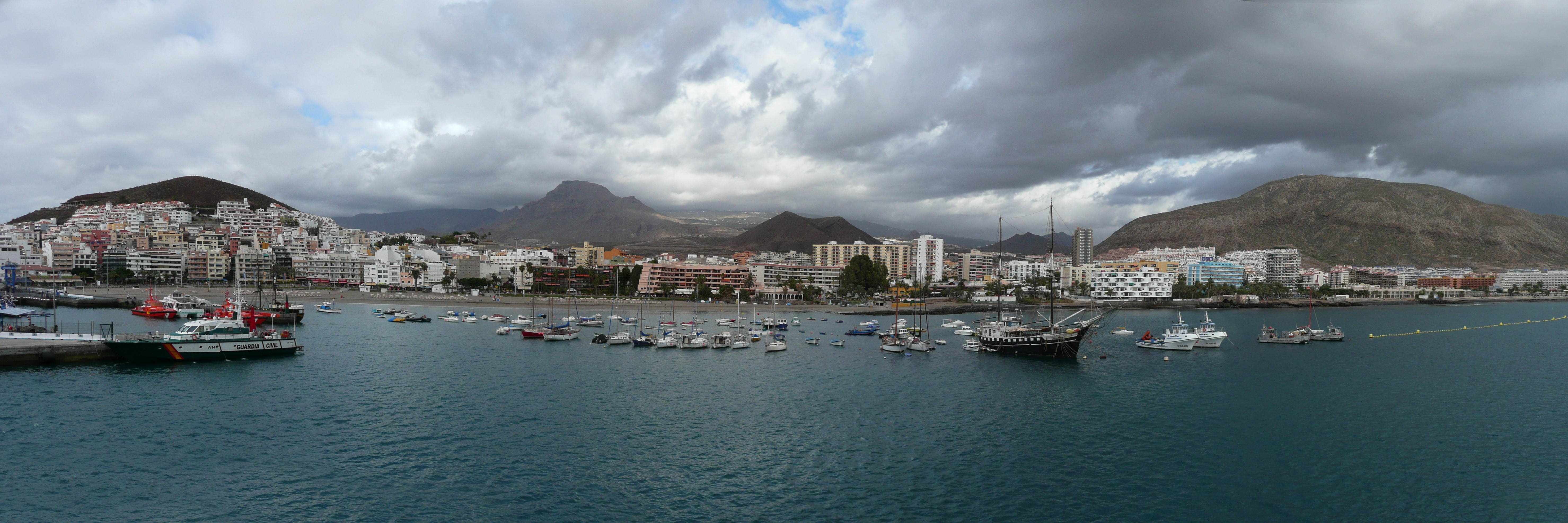 Los Cristianos Tenerife, beach and promenade near the harbour